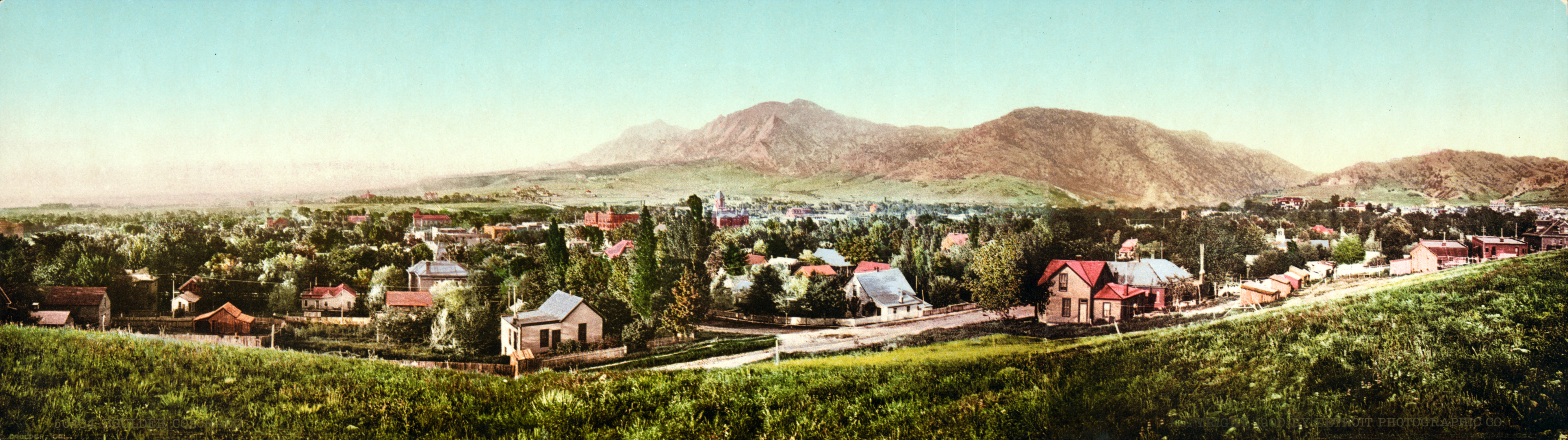 Photochrom print of Boulder, Colorado, US.